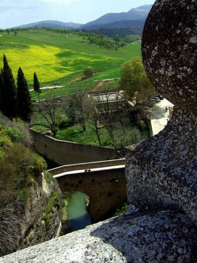 View of the Moorish/Arab bridge as seen from the "Old Bridge" on the south side of the town of Ronda, Andalusia province, Spain